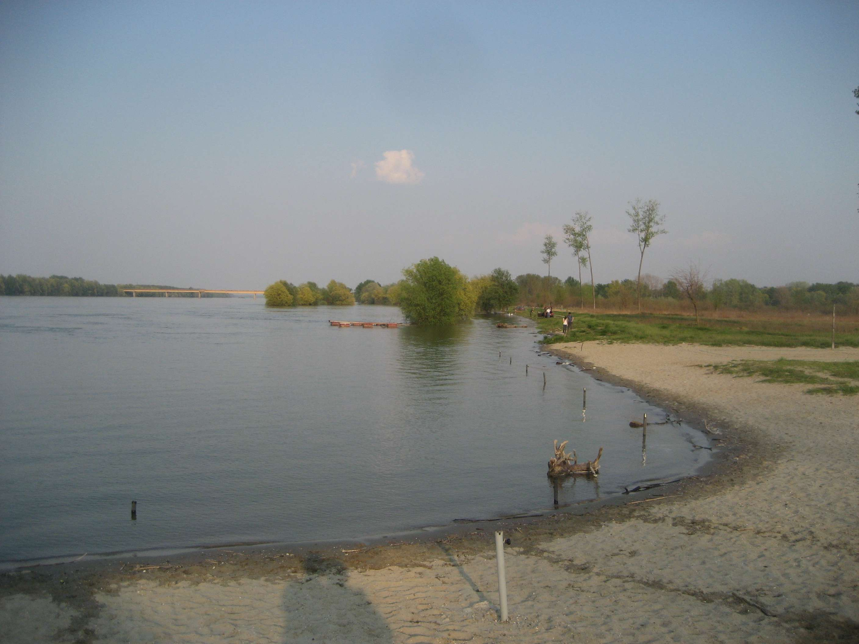 Danube in Ilok, Croatia